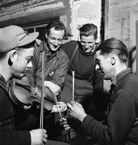 Lumbermen of Quebec playing a violin and using sticks to make music in their lumber camp. Inscription reads: "... Located in isolated areas, lumber camps must be self-contained units with sleeping accommodation, food supplies and home-made entertainment. Violinist Romeo Clement of Farley, Que. and Guillaume Riendeau on sticks, of Maniwaki, Quebec, make..."